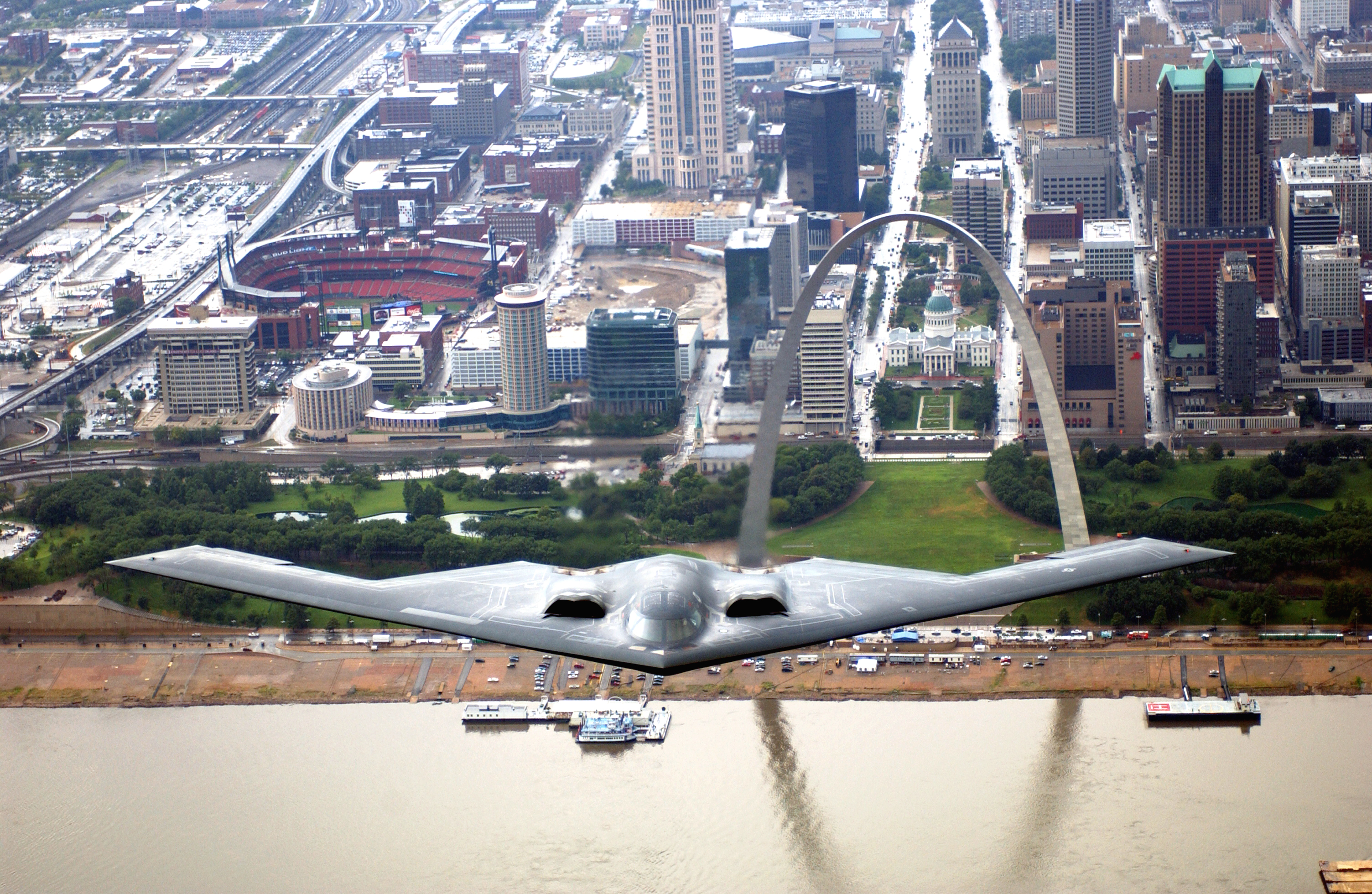 A B-2 Stealth bomber from the 509th Bomb Wing at Whiteman Air Force Base, Mo., flies over the St. Louis Arch on Aug. 10. The B-2 flyover was one of several events celebrating Air Force Week in St. Louis. (U.S. Air Force photo/Tech. Sgt. Justin D. Pyle)